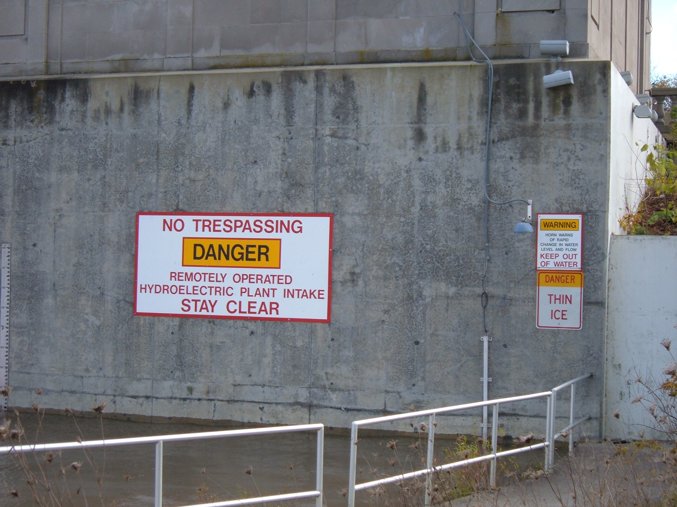 A group of warnings at O'Shaughnessy Dam near Dublin, Ohio. Self Made Photo.